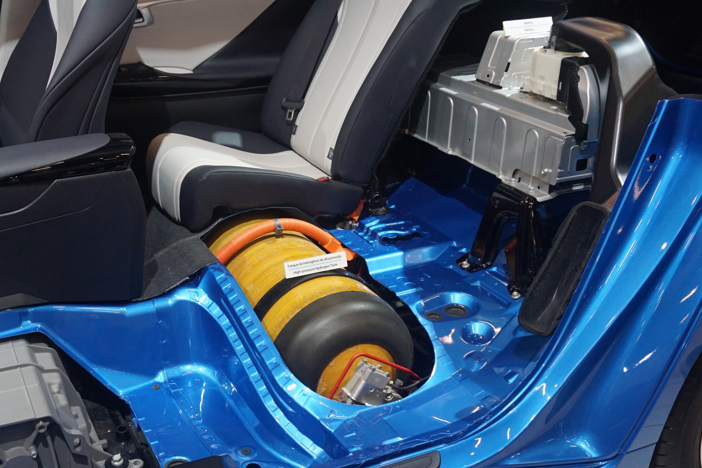 Toyota Mirai Fuel Cell cutaway exhibited at the Salão Internacional do Automóvel 2016 São Paulo, Brazil. Shown high-pressure hydrogen tank (left) and rechargeable battery pack (right top).